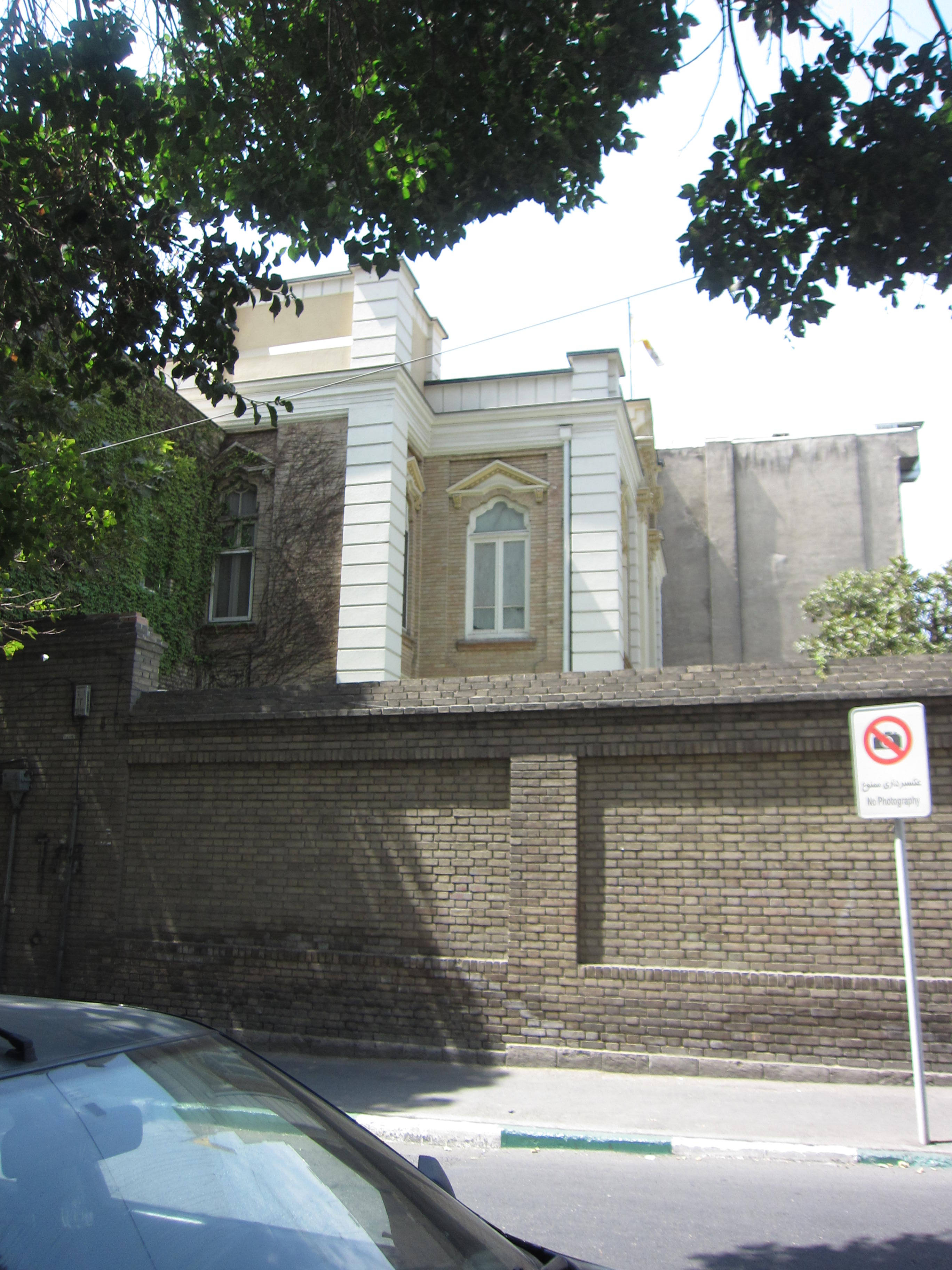 Embassy of Vatican, Neauphle-le-Château street, Tehran, Iran